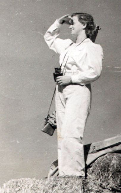 Chasia in Israel1